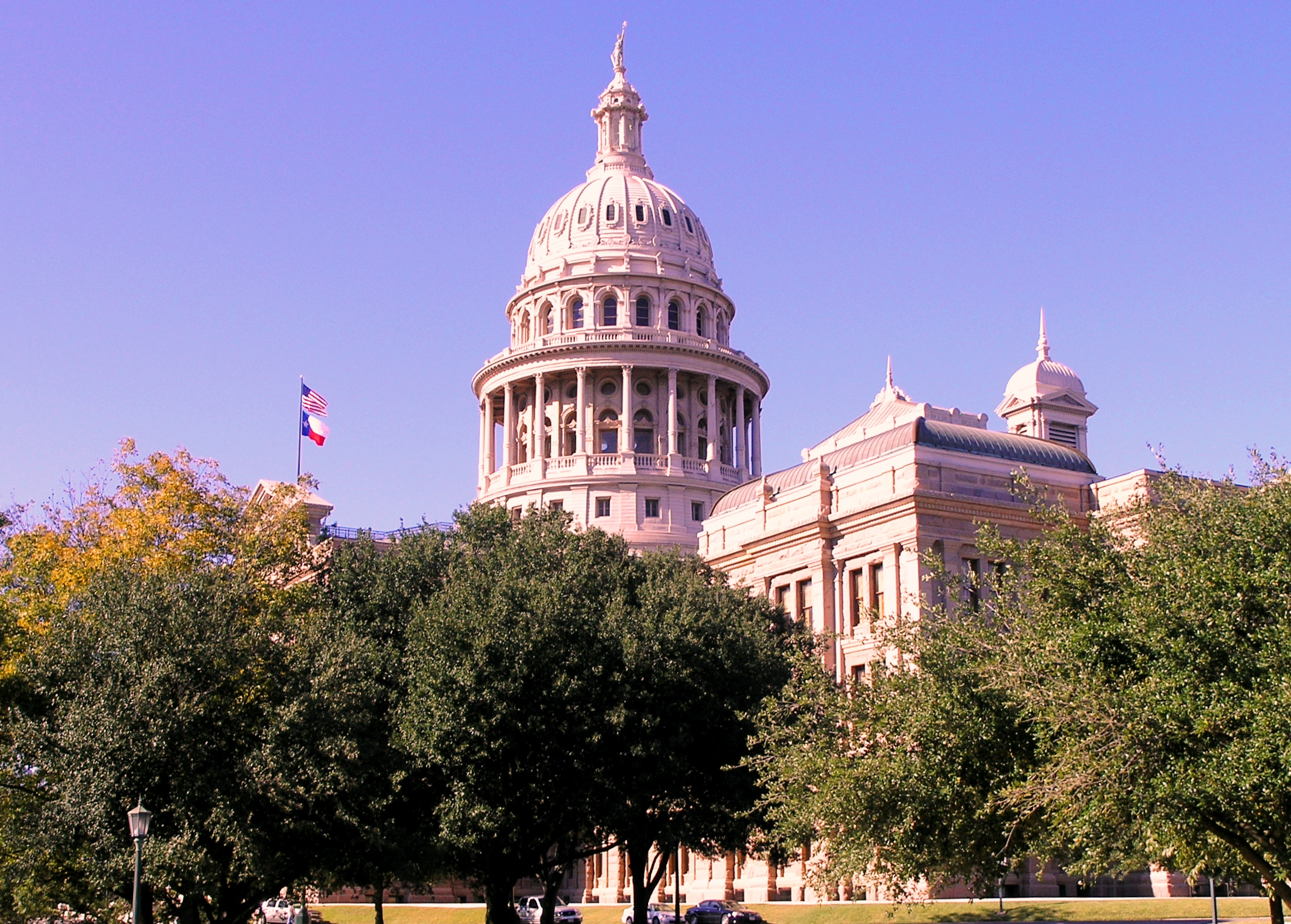 Image of Austin, Texas